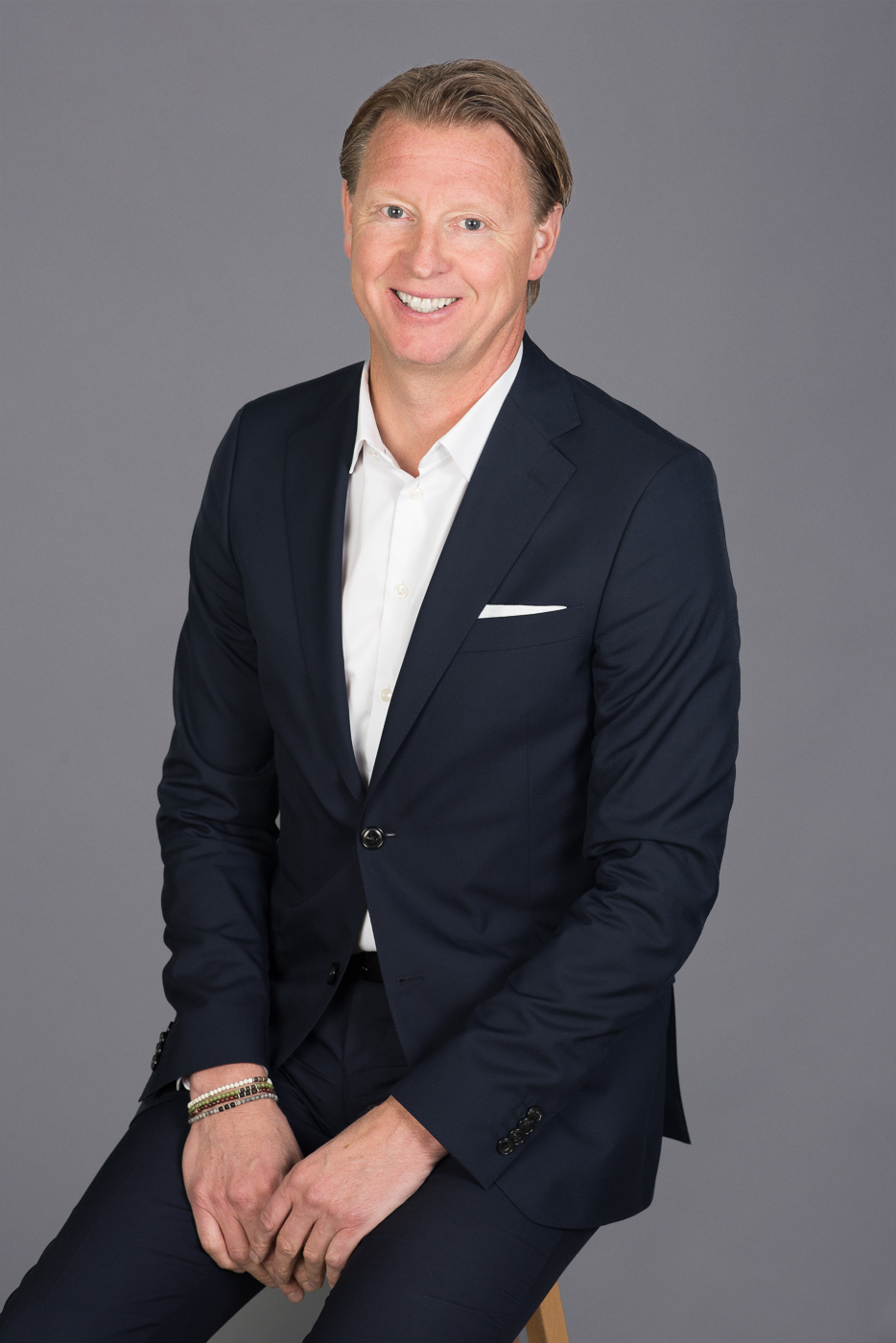 Profile photograph of Hans Vestberg, CEO of Verizon Communications as of 8/1/18